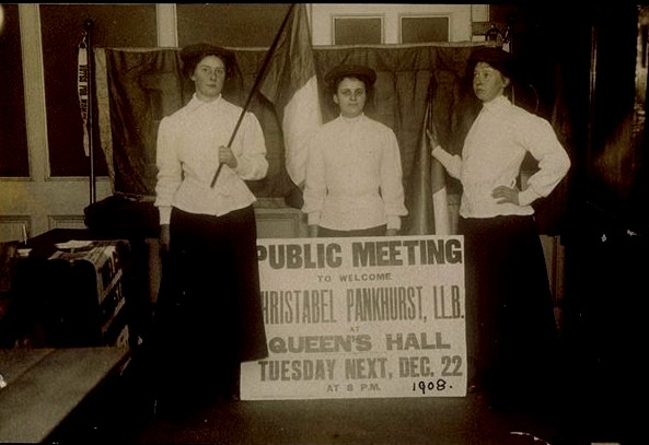 Charlotte Marsh, Dorothy Radcliffe and Elsa Gye 22 Dec1908